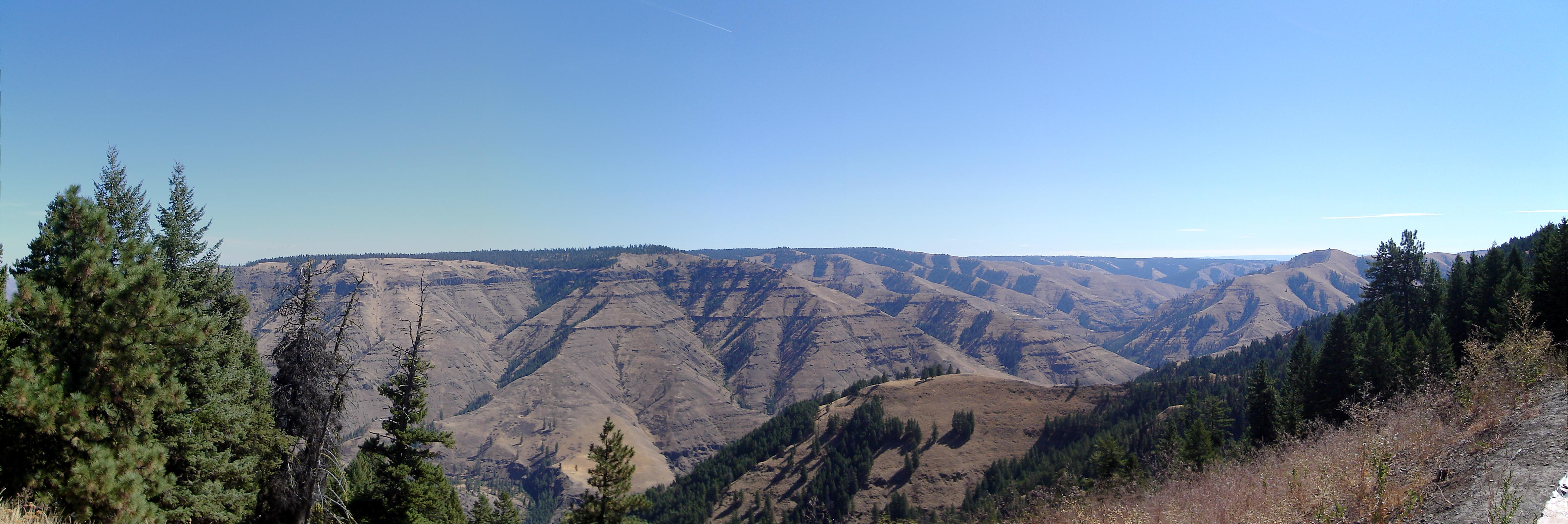 Joseph Canyon in northeastern Oregon